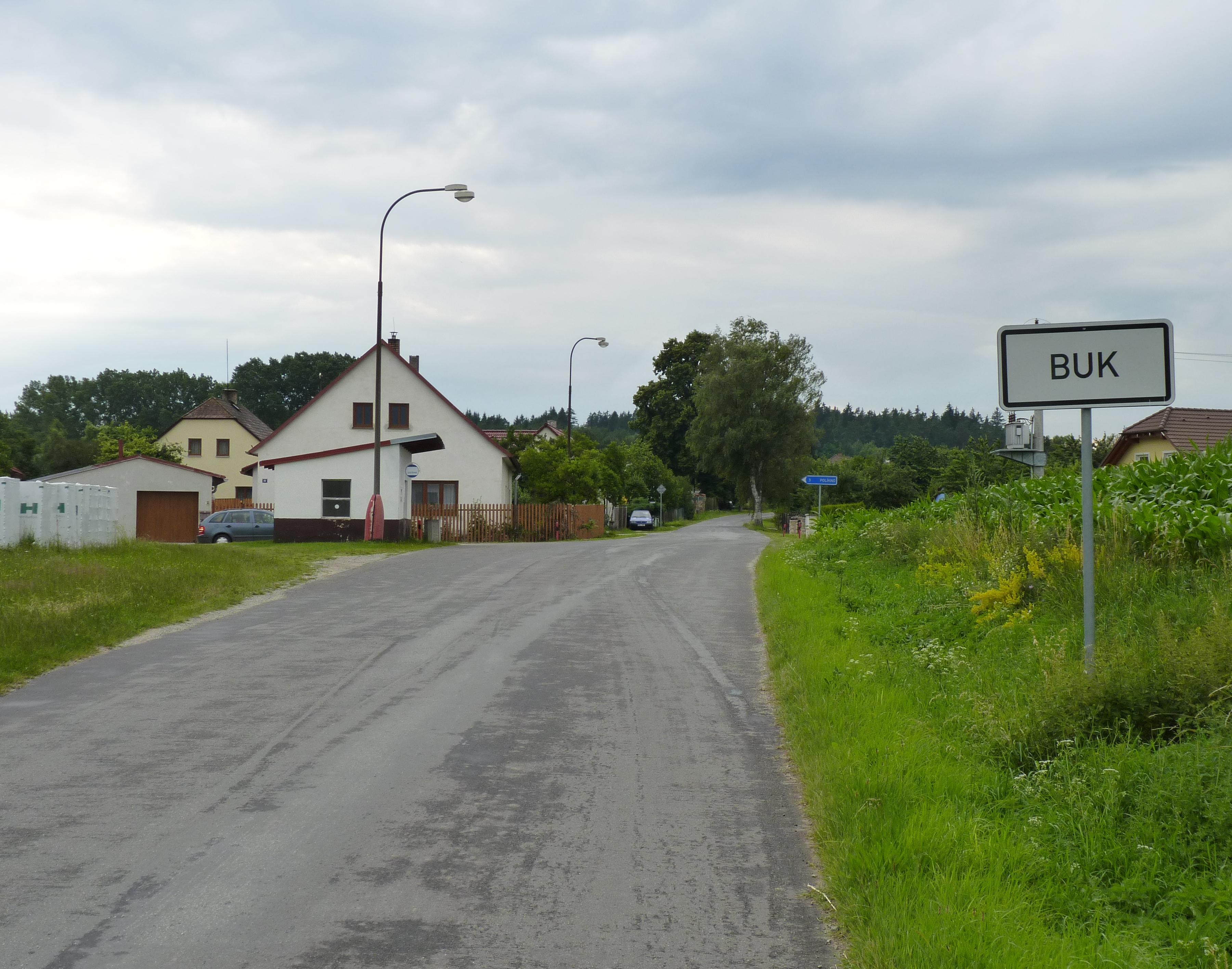 Buk (Jindřichův Hradec). Jindřichův Hradec District, South Bohemian Region, Czech Republic